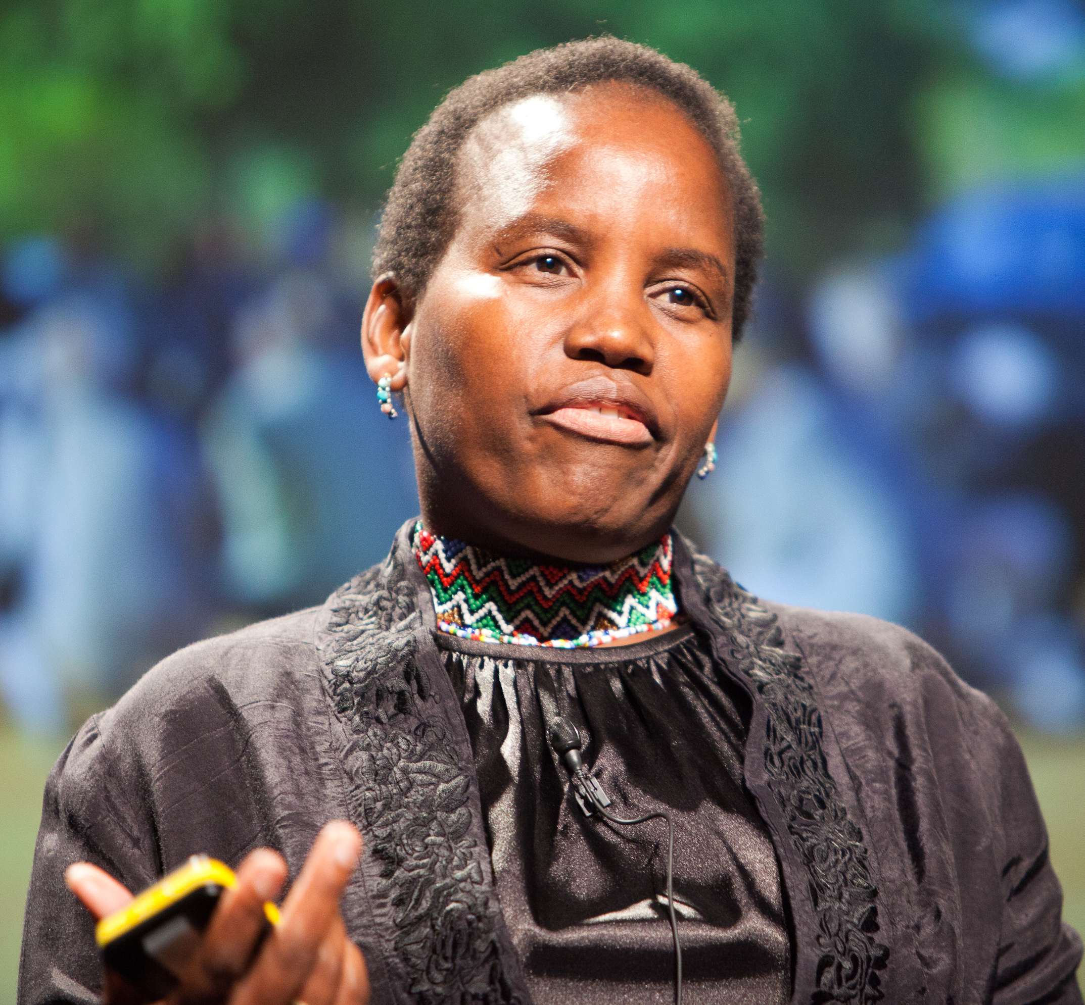 Unity Dow speaks about Africa's need to "reclaim its sense of self", and assert its own evolving identity instead of yielding to existing dominant cultural systems photo by Kris Krüg for PopTech